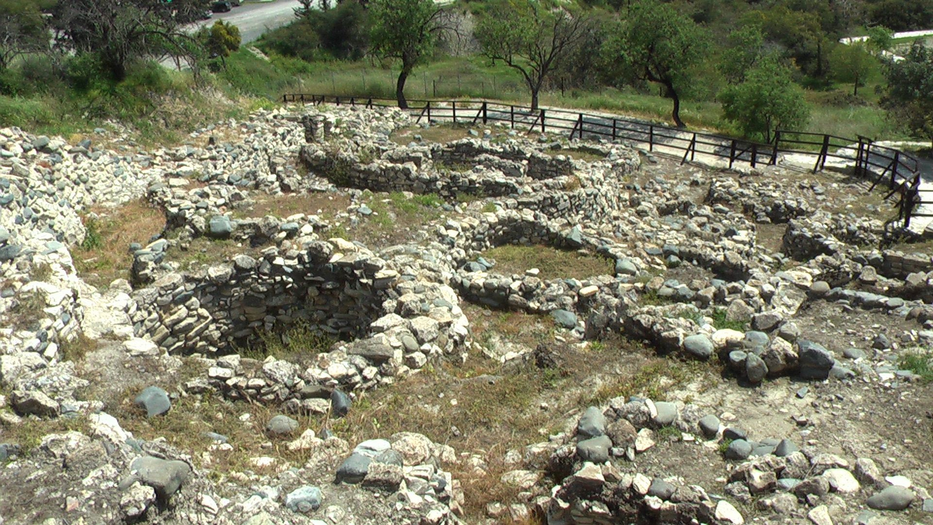 UNESCO world heritage site. Houses from circa 6000 BC. Located approx 30Km SW of Larnaka, Cyprus